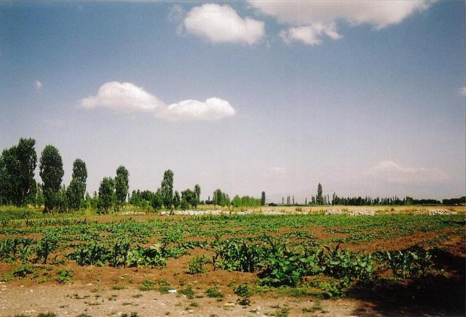 A view from Iğdır grassy plain